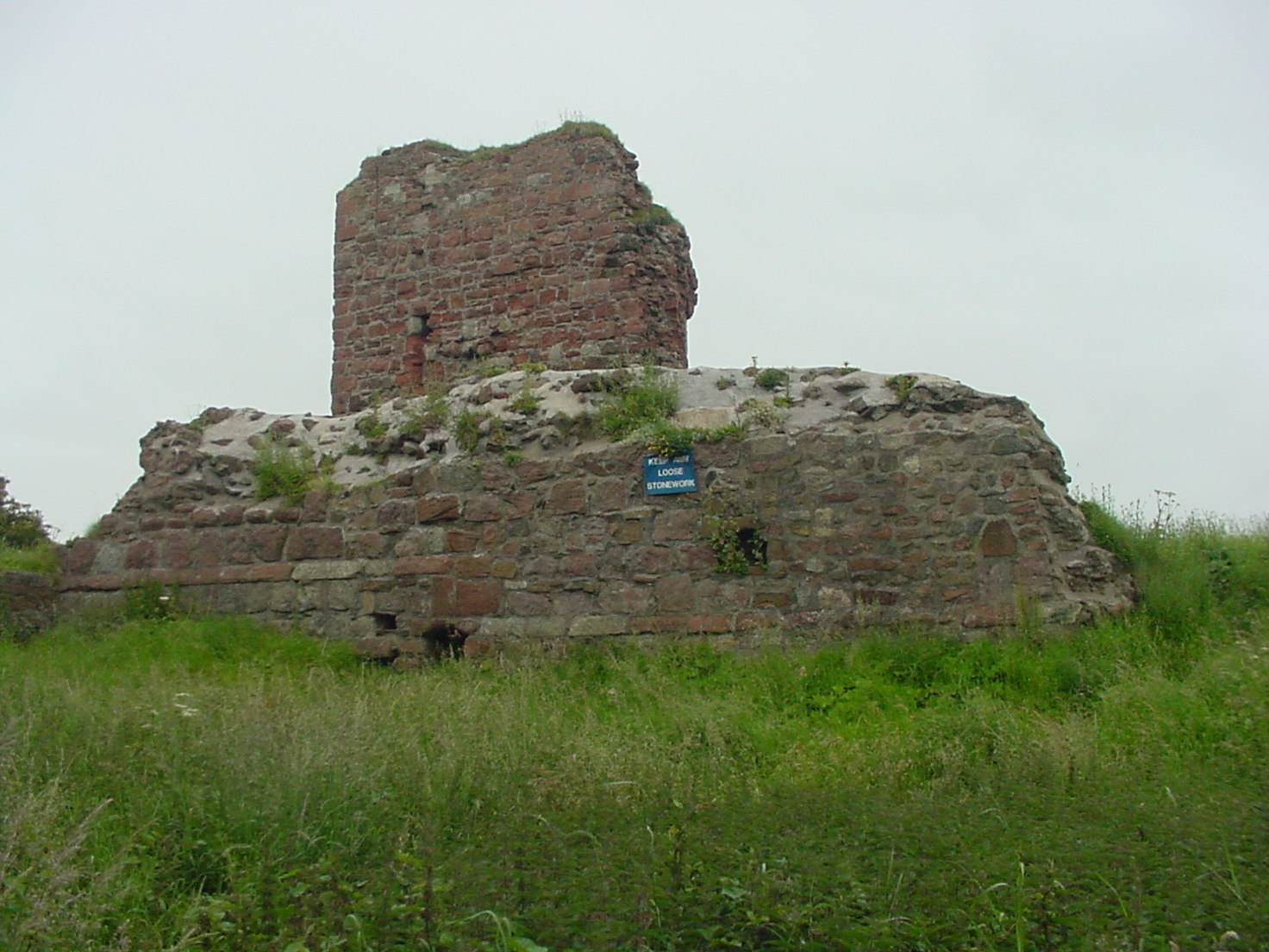 This is a photograph of Ardrossan Castle in Ayrshire, Scotland